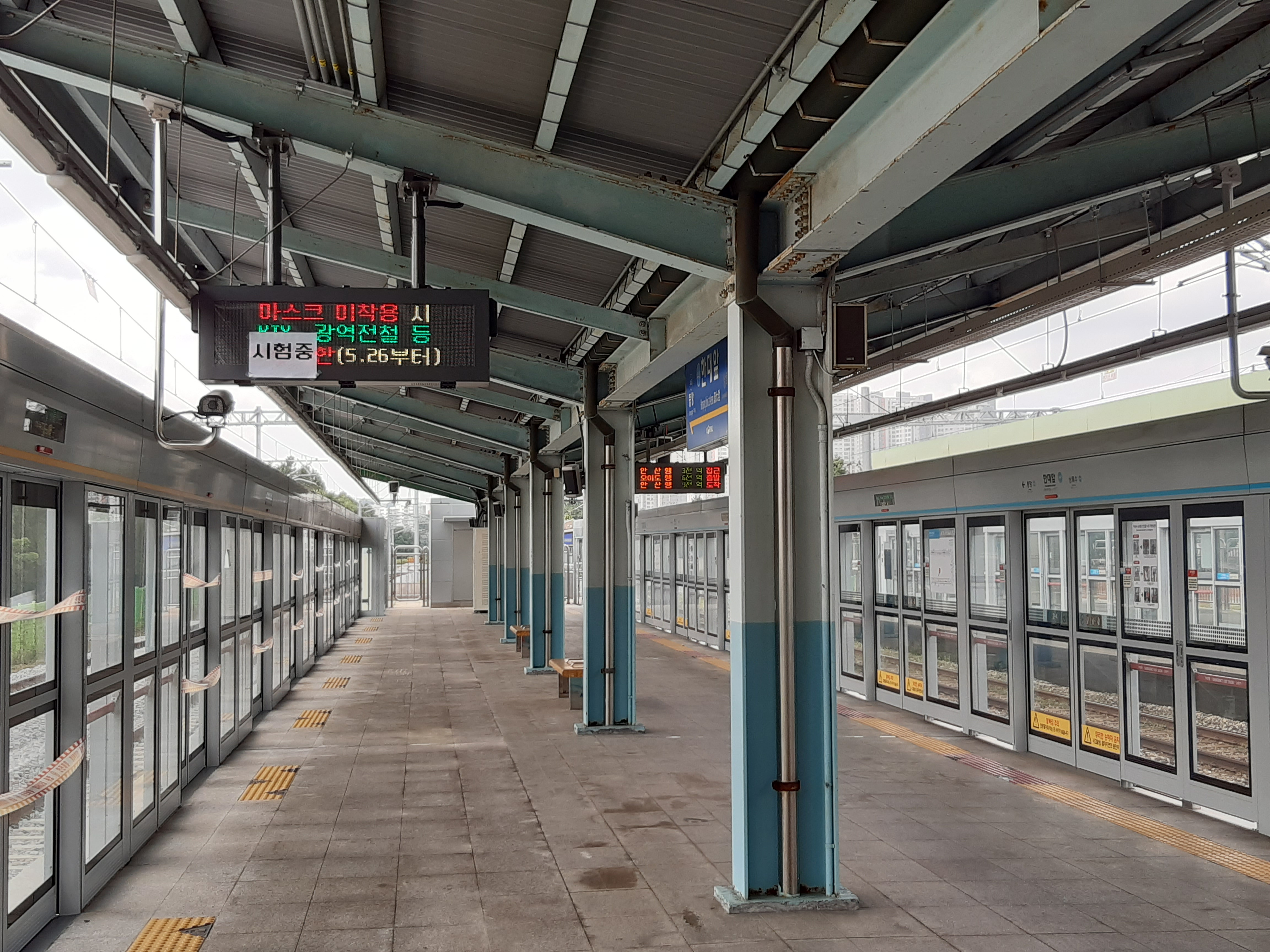 The platform at Hanyang University at Ansan Station